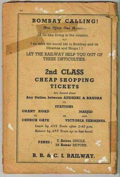 An 1880s BB&CI advertisement poster. Since this is over 100 years old, it is free to use.